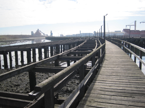 North Blyth, Base of North Side Staithes These coal staithes were immortalised in the film Get Carter starring Michael Caine (1971. Towards the end of the film he chases two men along the wooden walkway carrying a double barrelled shotgun with serious intent to kill them both. Needless to say he achieves his goal ---- after all he is Michael Caine sorry Jack Carter.